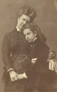 Maria Luísa de Sousa Holstein, 3rd Duchess of Palmela, e her daugher, Helena Maria Domingas de Sousa Holstein, later 4th Duchess of Palmela